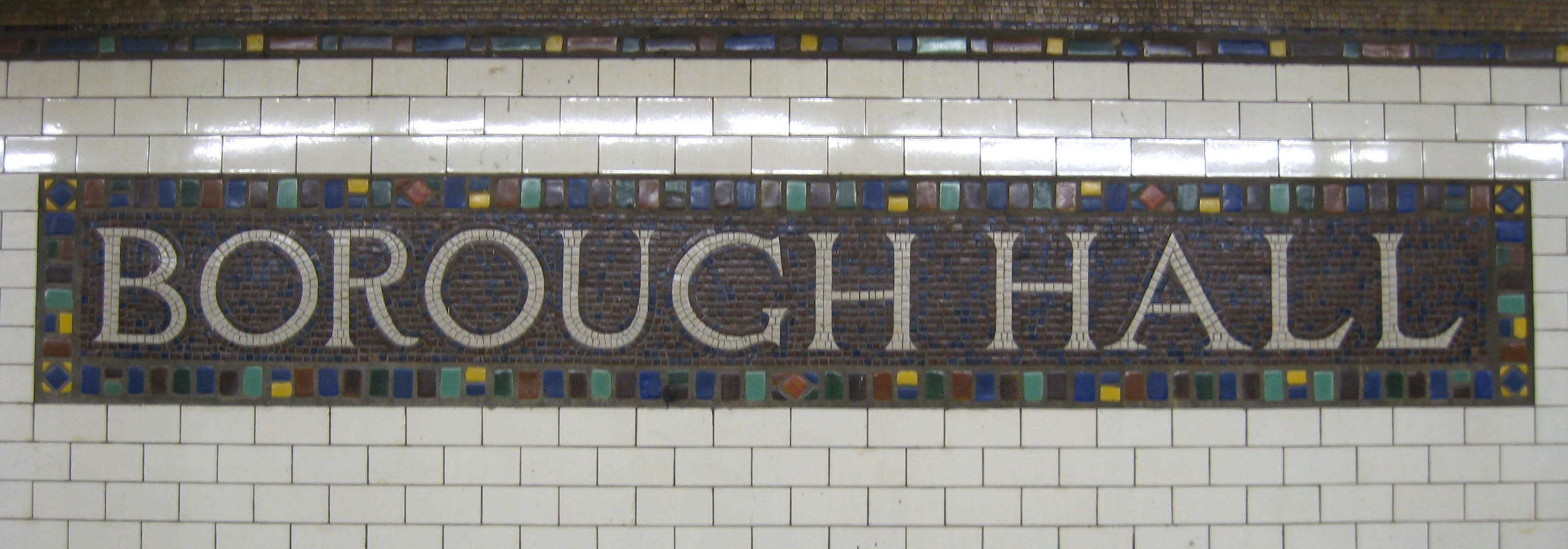 ID mosaic for Court Street–Borough Hall (New York City Subway) 2/3 trains northbound platform